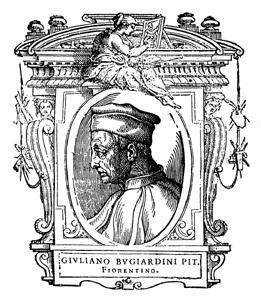 Illustratio from "Le Vite" by Giorgio Vasari, edition of 1568. For the artist portrayed see filename